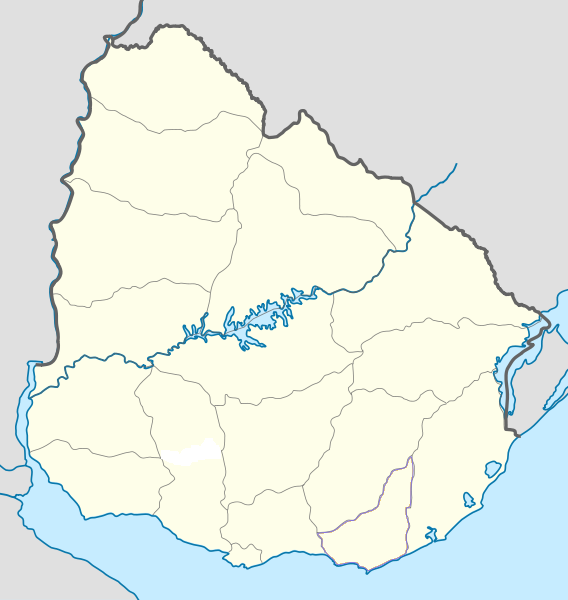 1884 map of the Oriental Republic of Uruguay. After the establishment of the new departments of Artigas, Rivera and Treinta y Tres, the country was subdivided into eighteen departments